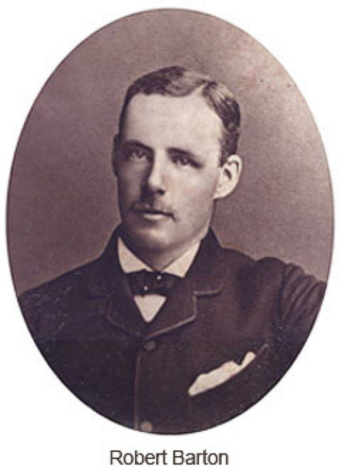 Portrait of Captain Robert Barton, Coldstream Guards, commanding the Frontier Light Horse - Battle of Hlobane